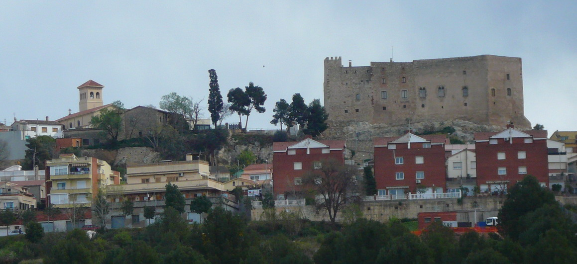 Castle and church of El Papiol, Baix Llobregat, Catalonia